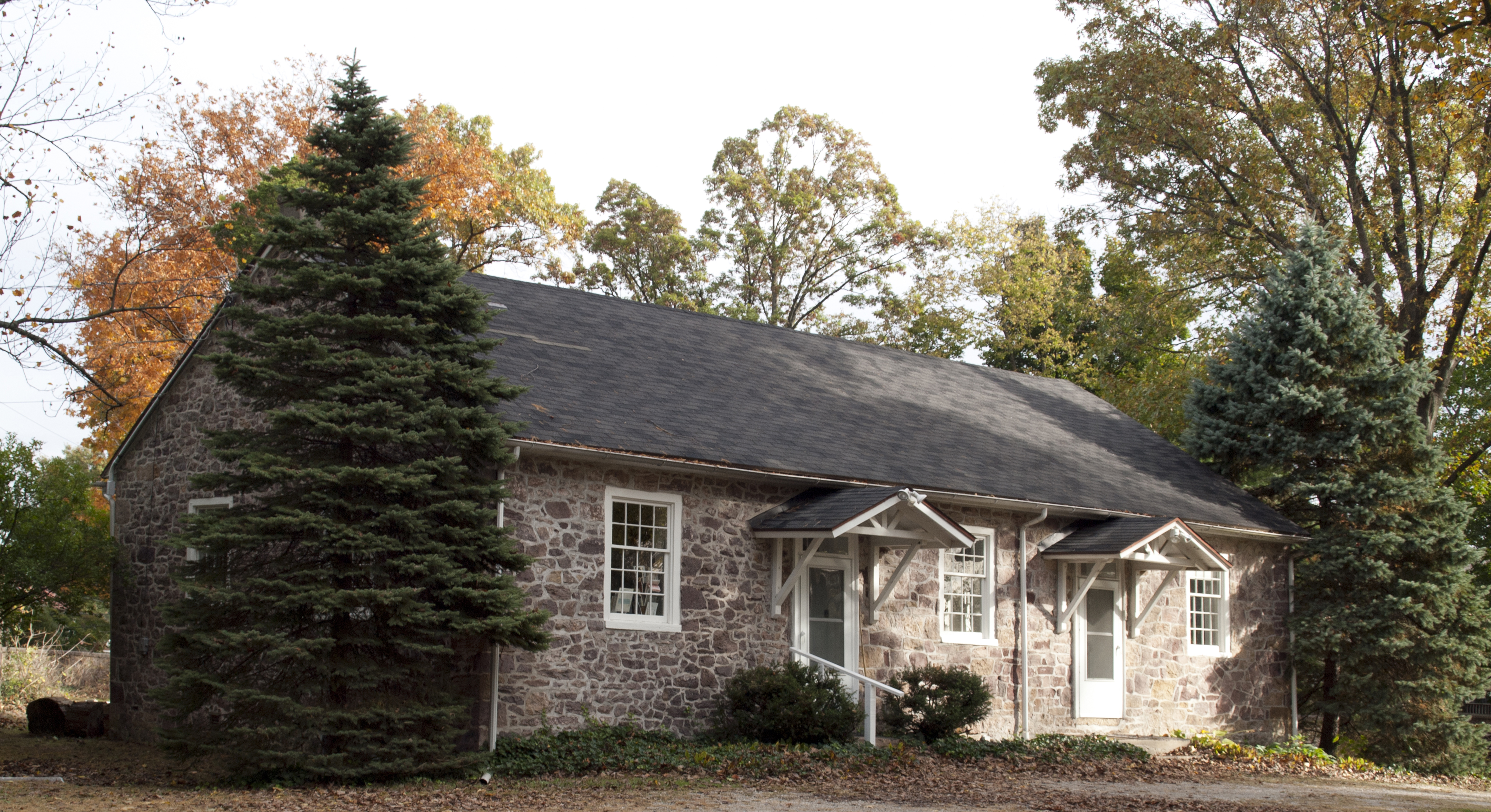 This image was taken during Autumn, facing northeast.